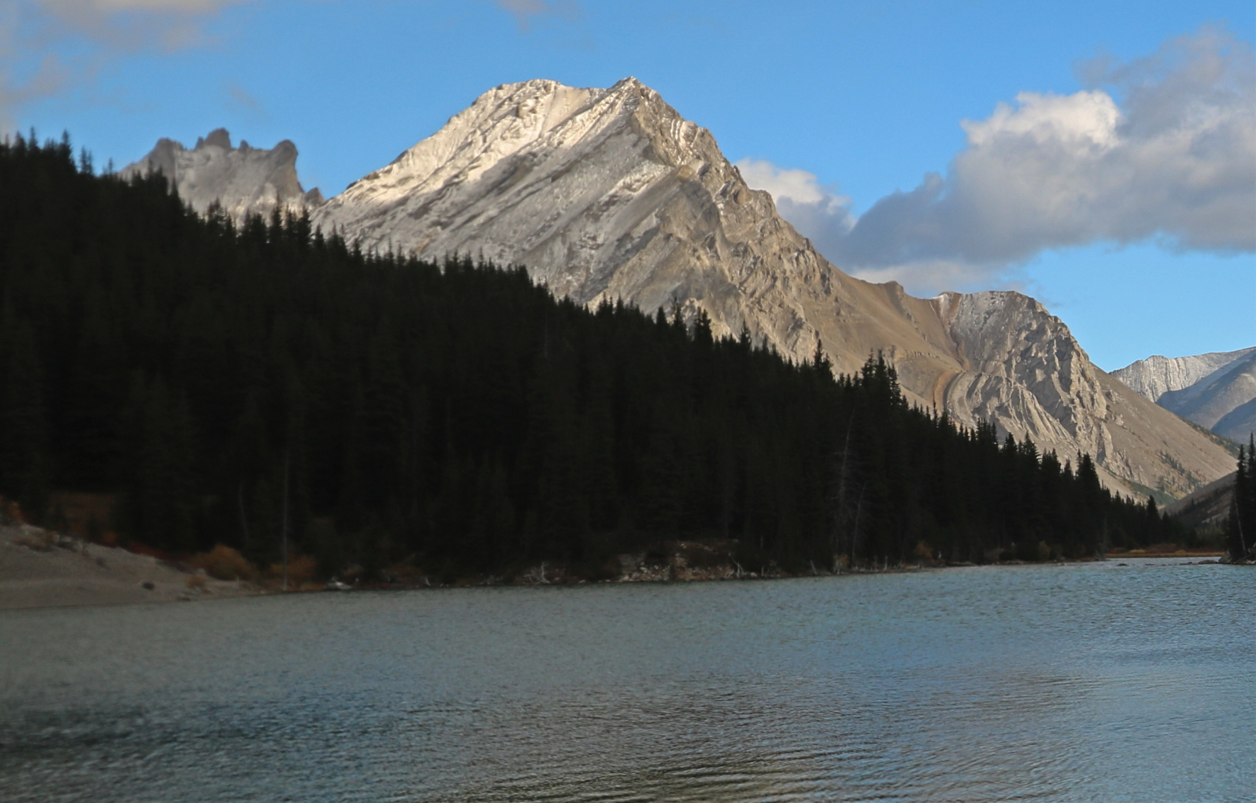 Elbow Lake Kananaskis Tombstone South